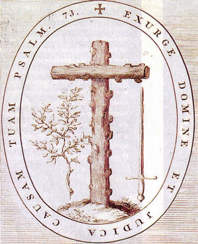 Escudo de la Santa Inquisición; Coat of arms for the Tribunal of the Holy Office of the Inquisition in Spain. Text: «EXURGE DOMINE ET JUDICA CAUSAM TUAM. PSALM. 73» (Psalm 74 in Hebrew numbering)